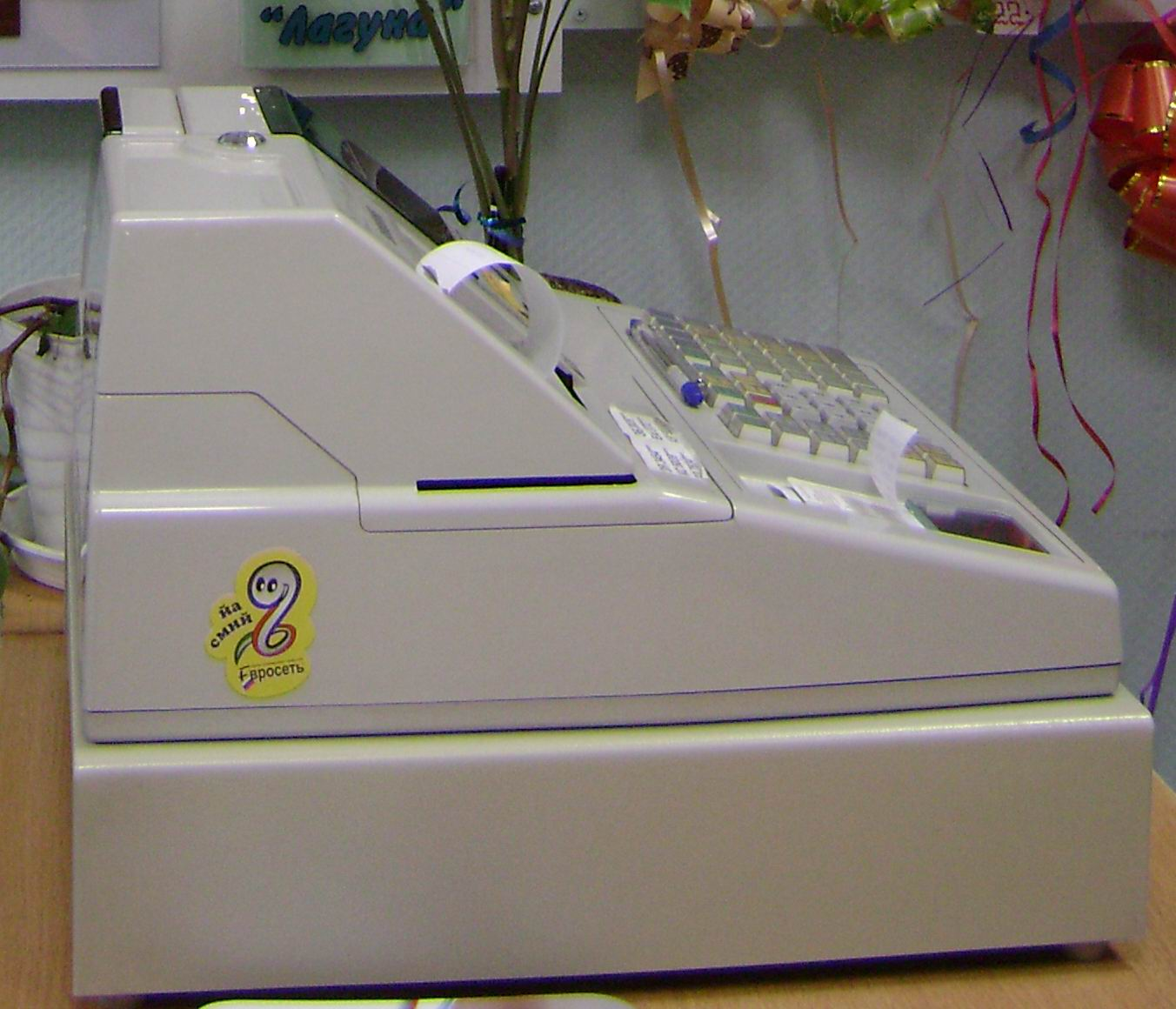 Shop (RF)